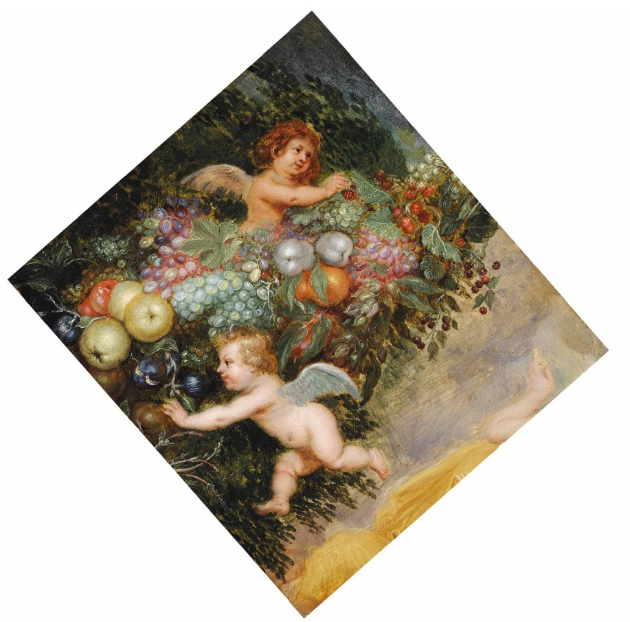 Attributed to Hendrick van Balen II (Antwerp 1623-1661) and Studio of Jan Breughel II (Antwerp 1601-1678), Two putti with a garland of grapes, quinces, apples, strawberries and other fruit: a fragment, oil on panel oil on panel, 11½ x 11 3/8 in. (29.1 x 28.9 cm.), sold by Christie's on 5 July 2013